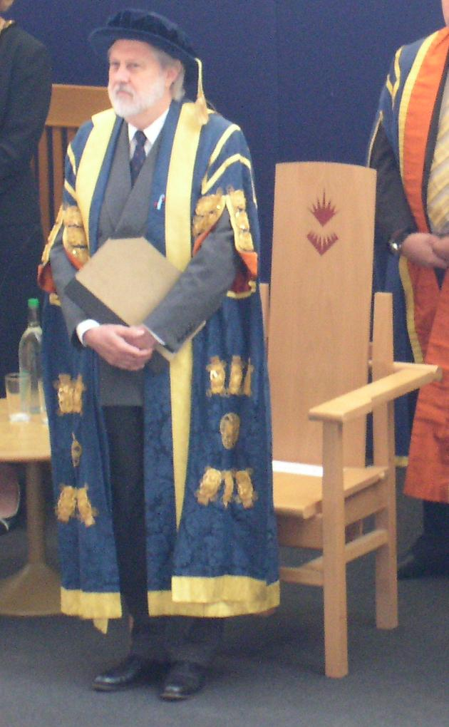 British film producer Lord Puttnam of Queensgate, the Chancellor of the University of Sunderland, at the School of Computing and Technology Awards Ceremony.